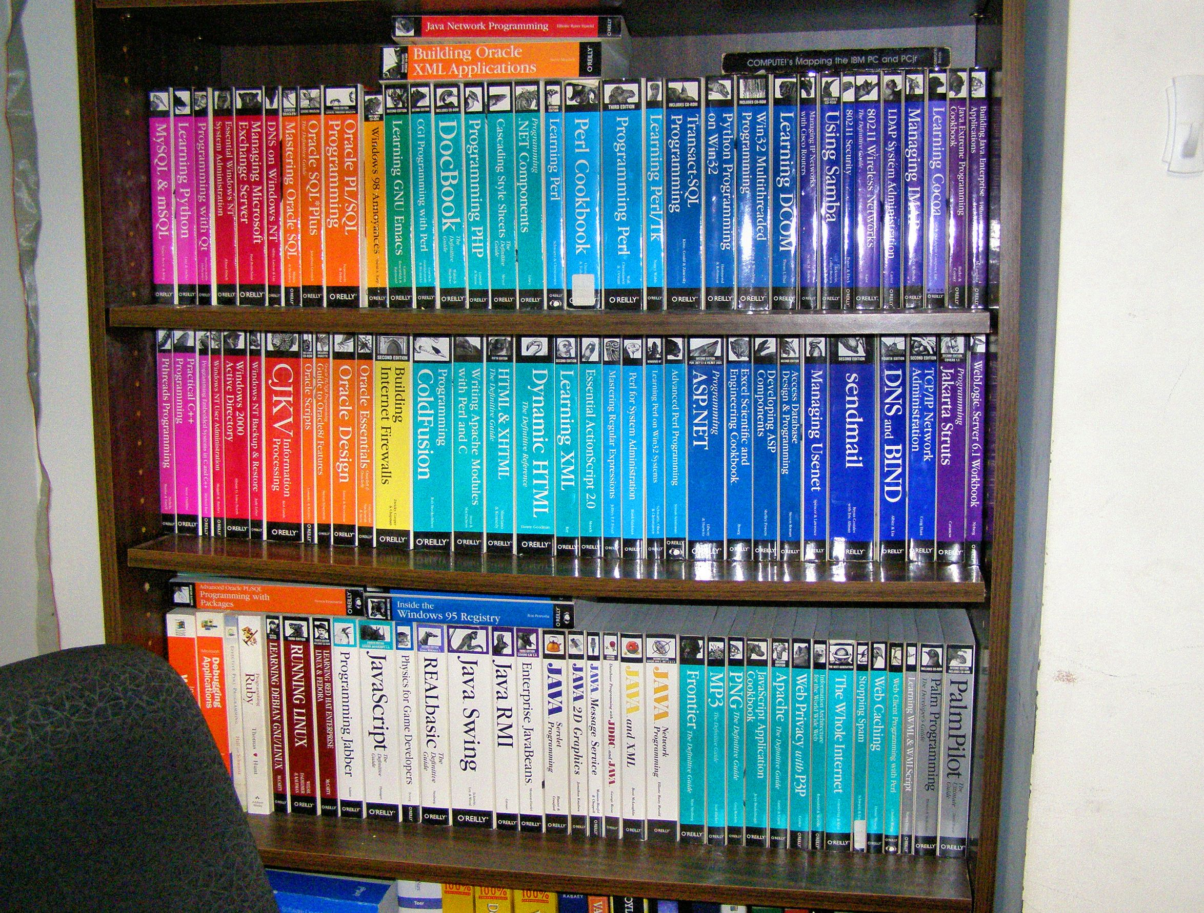 Large collection of O'Reilly Media "Animal Books" arranged in rainbow order. O'Reilly books are color coded according to subject matter.